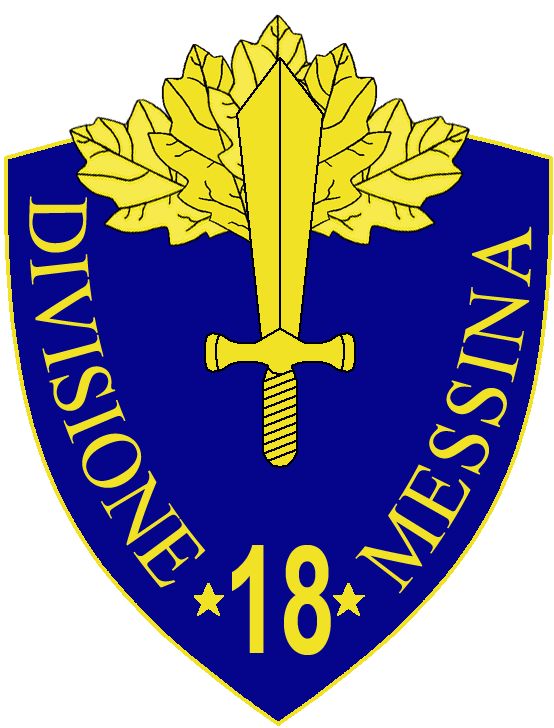 18a Divisione Fanteria Messina insignia, Regio Esercito, Italy, WWII